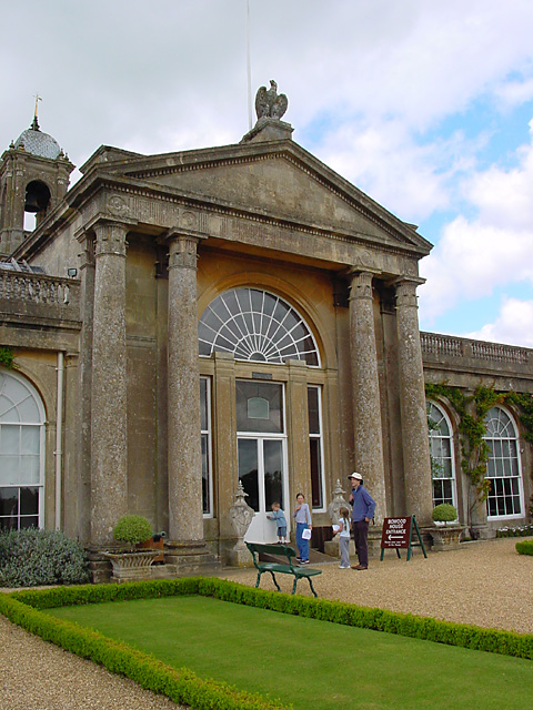 Bowood — is a stately Palladian-Georgian country house and landscape gardens of the Marquis and Marchioness of Lansdowne. English landscape gardens designed by Lancelot "Capability" Brown. Interiors designed by Robert Adam in the 18th Century.